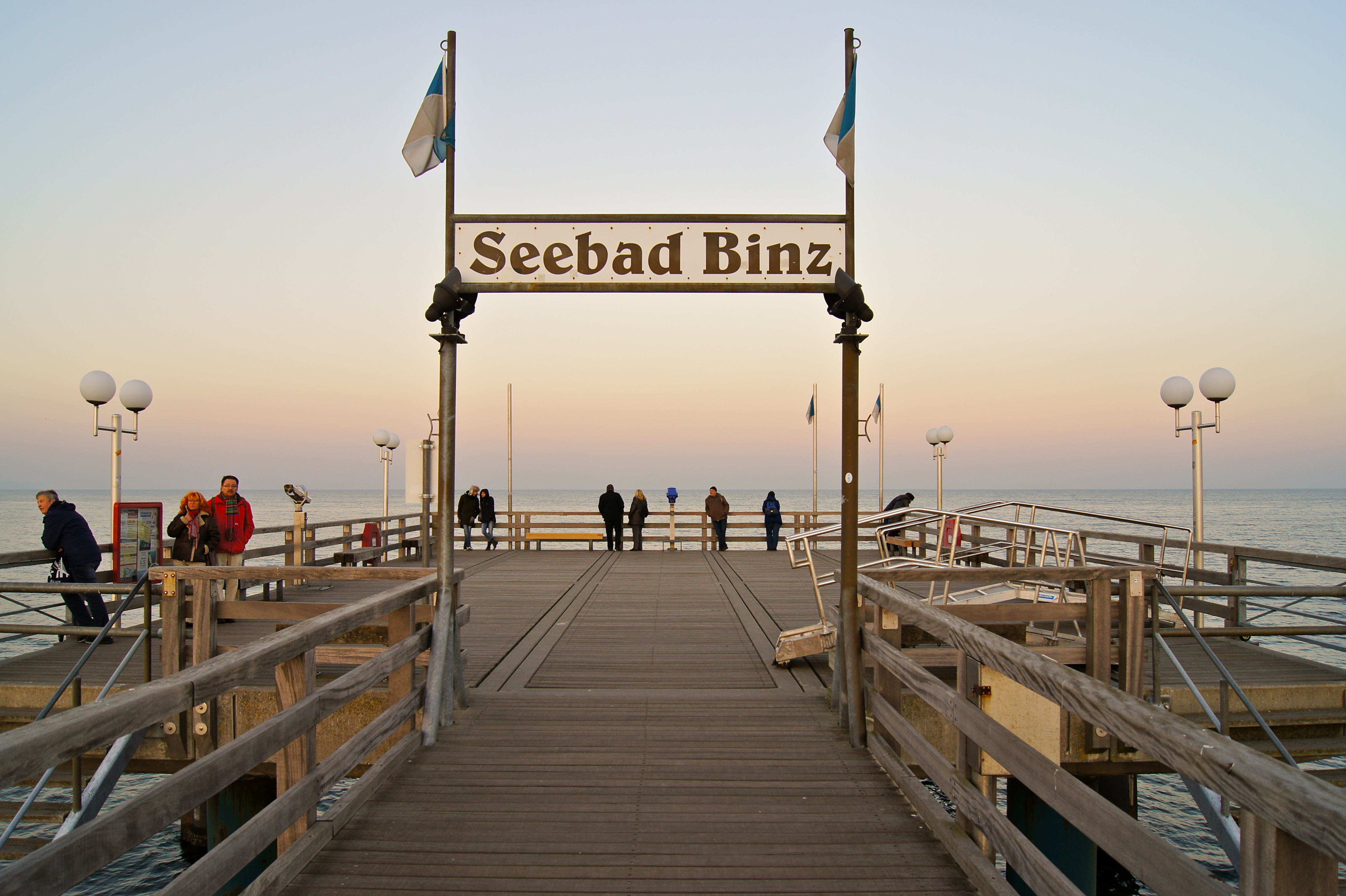 Binz, Germany: The pier